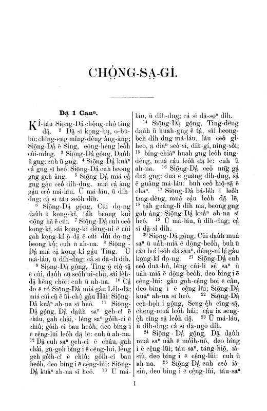 Book of Genesis, Hinghwa (Xinghua/Puxian) Bible.